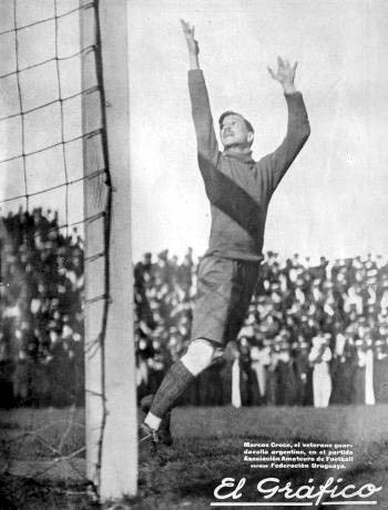 Marcos Croce, goalkeeper.